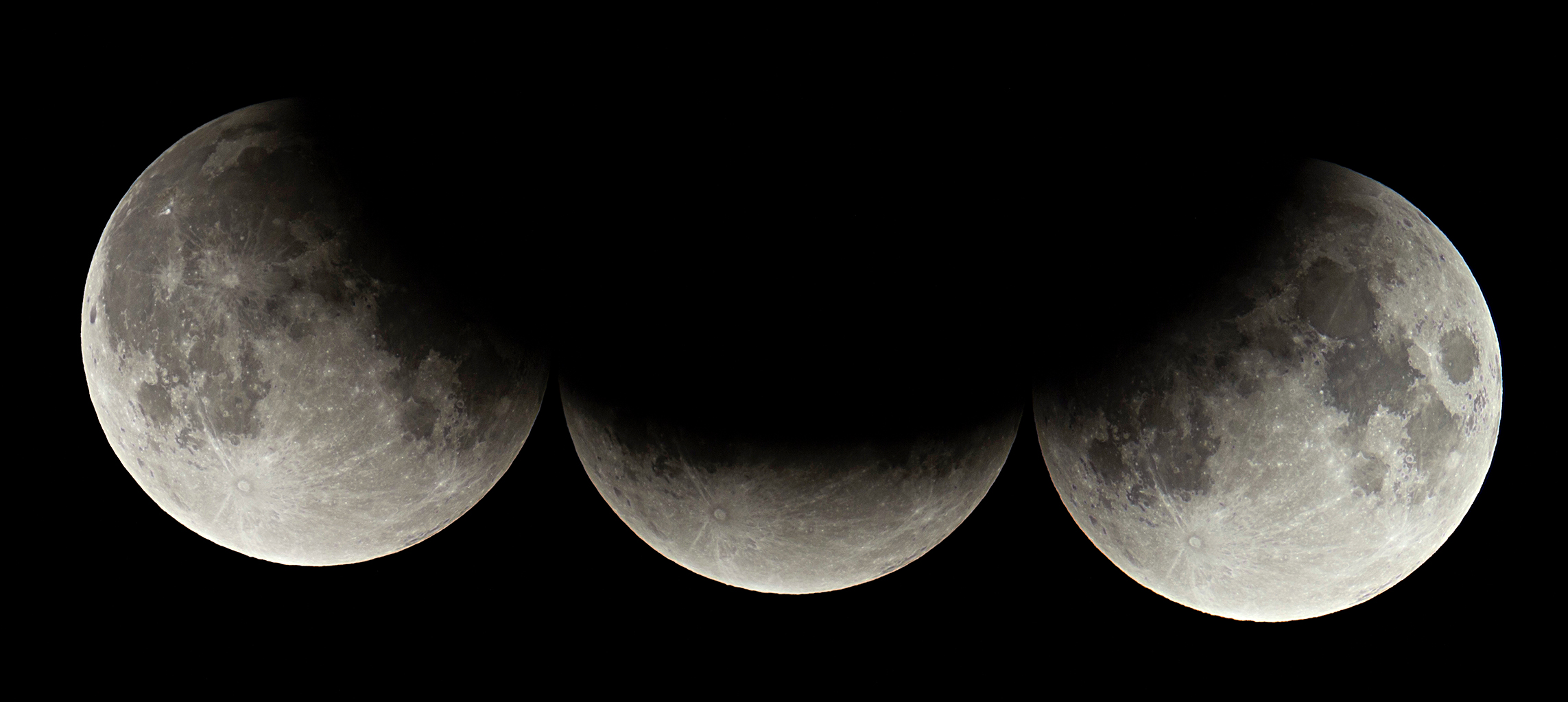 Composite image of the partial lunar eclipse on July 16, 2019. The image in the center was taken at 21:31 UT, at maximum eclipse, when about 65% of the Moon has immersed into the Earth's dark umbra. The images to the right and the left were taken one hour and nine minutes earlier and later, respectively - exactly the time it took the Moon to travel it's own diameter. The images were then carefully stacked in Photoshop, to represent the Moon's true motion trough the Earth's shadow. By combining these three images, one get's a good impression of the southern edge of the Earth's umbra, trough which the moon passed during that eclipse. Around 330 BCE, greek philosopher Aristotle suggested that the Earth must be a sphere, based on the shape of the Earth's shadow he observed during lunar eclipses. The three seperate shots are 1/60 second exposures, taken with a Canon EOS 550D at ISO 200, using a 90/1000mm refractor telescope.